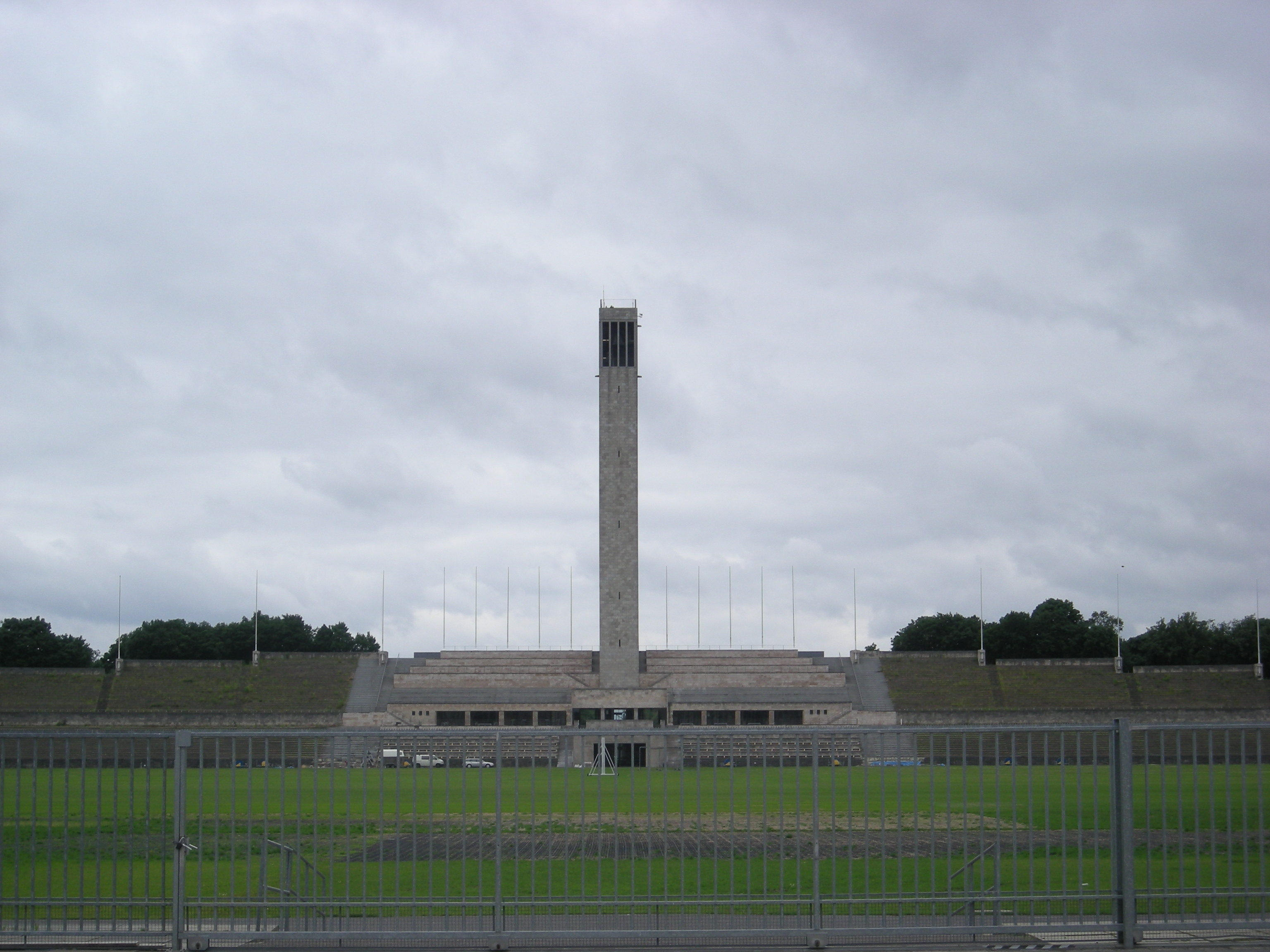 Belltower and the Maifeld at the Olympiastadion in Berlin (Germany).